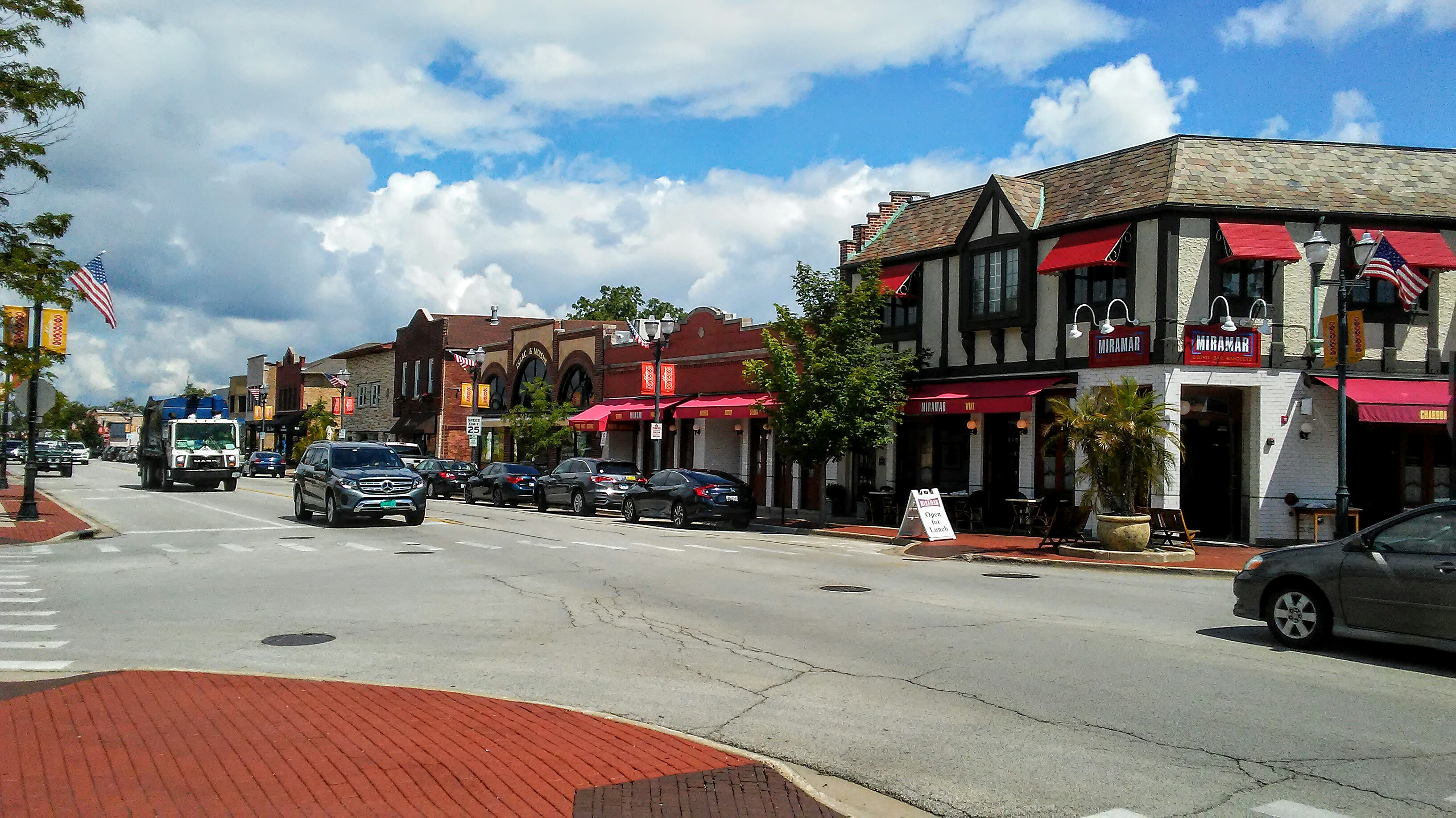 Waukegan Avenue, on of the City's main thoroughfares is Lined with shops and restaurants.